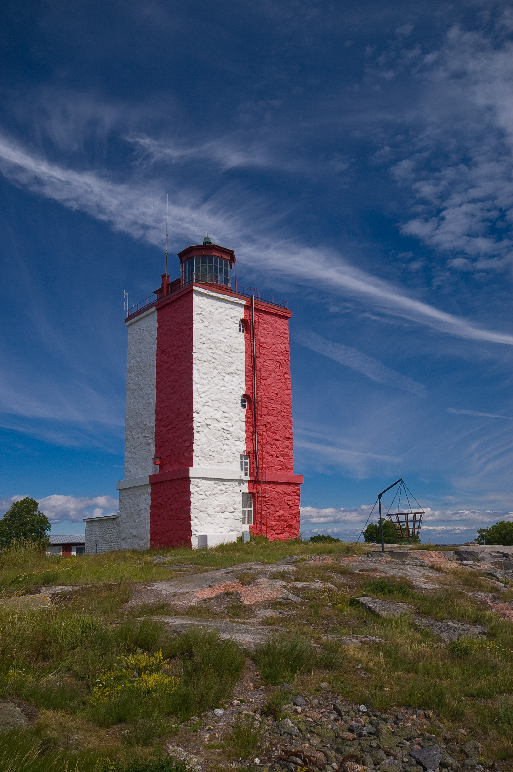 Utö lighthouse in Finland